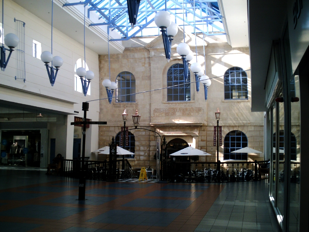 Central piazza of The Shires Shopping Centre, Trowbridge, Wiltshire, showing Salter's Mill, home of Trowbridge Museum